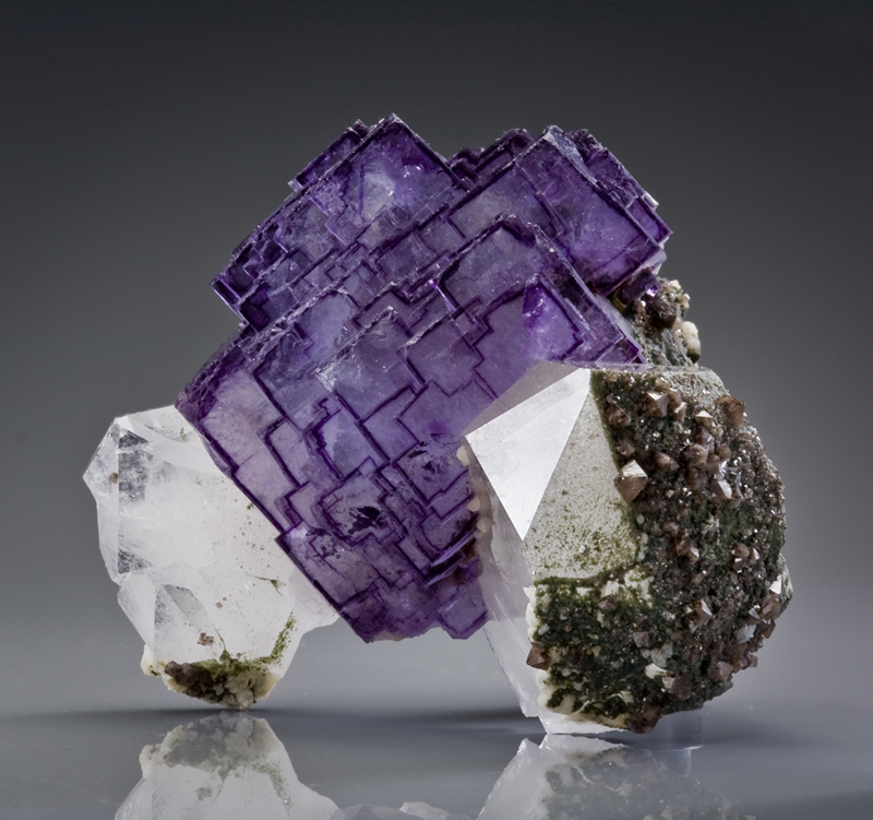 Fluorite Locality: Yaogangxian Mine, Yizhang County, Chenzhou Prefecture, Hunan Province, China (Locality at ) Size: small cabinet, 8.8 x 7.3 x 5.8 cm Fluorite From the same pocket as the piece above, this is one of a very few such example I have seen perfectly extracted and with such aesthetics. This fluorite cluster is 5.8 cm across and looks like a floating city, perched atop the quartz like some mythical image of shangri-la on the mountains. The freestanding fluorite is complete all around the top, sides, and the back, only contacted on a tiny portion of the bottom/rear of the specimen. It is translucent, and pristine on all the faces. The sharp steppes are highlighted by a thin, intense purple phantom at all edges....mesmerizing in person! The fluorite "city" is standing upon a massive fluorite base which adheres to and extends between the two quartzes - which are also totally pristine and perfect. A sprinkling of sharp brown, translucent scheelite octohedra sparkles on the backside of the quartz. Scheelite, of course, is quite rare for this mine. In perfection and aesthetics, and color, and overall visual impact...this pocket just stands in a league of its own, I think. Nothing like it from anywhere in the world I can think of. Found in 2006